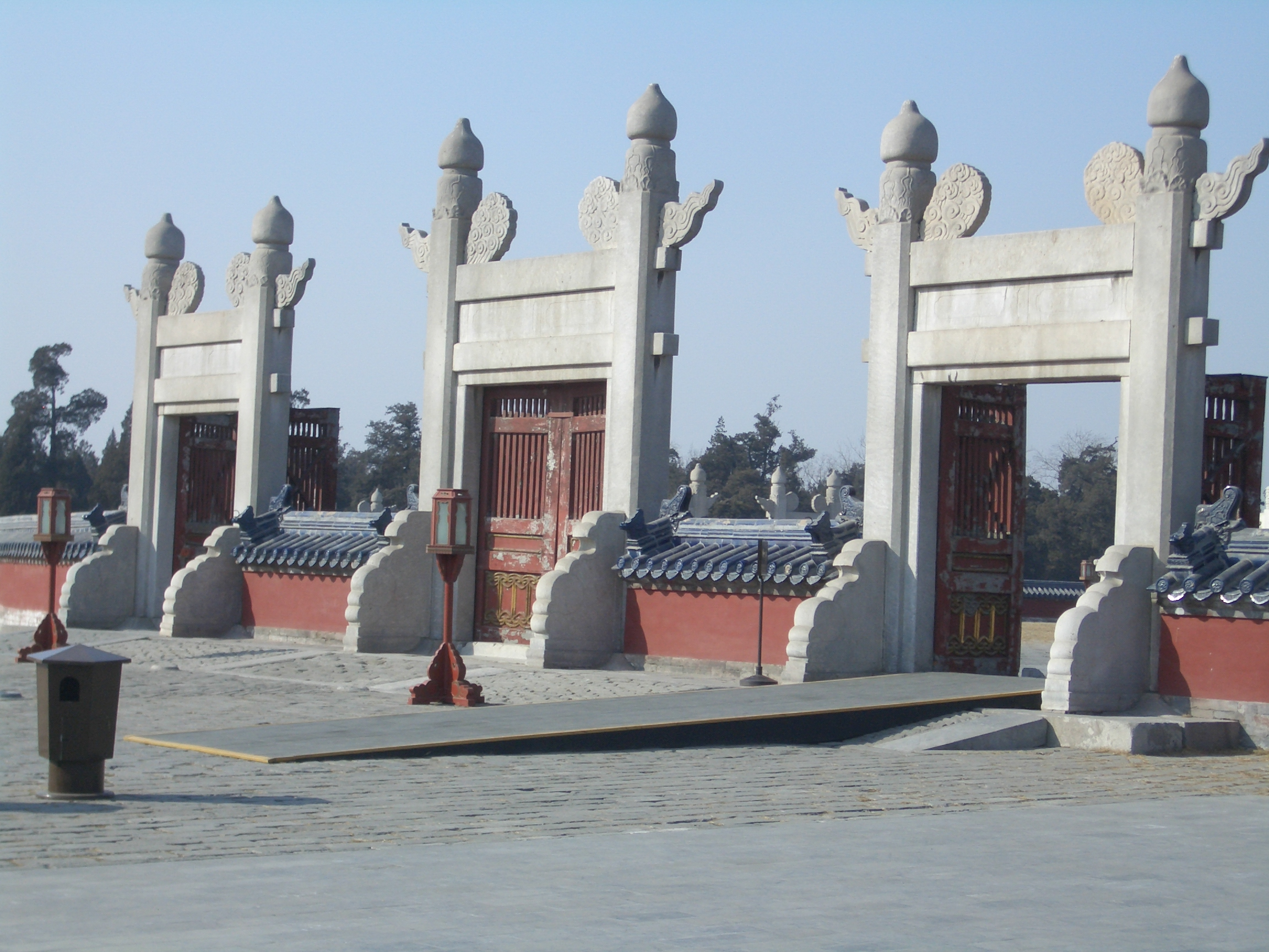 Temple of Heaven, Beijing, China